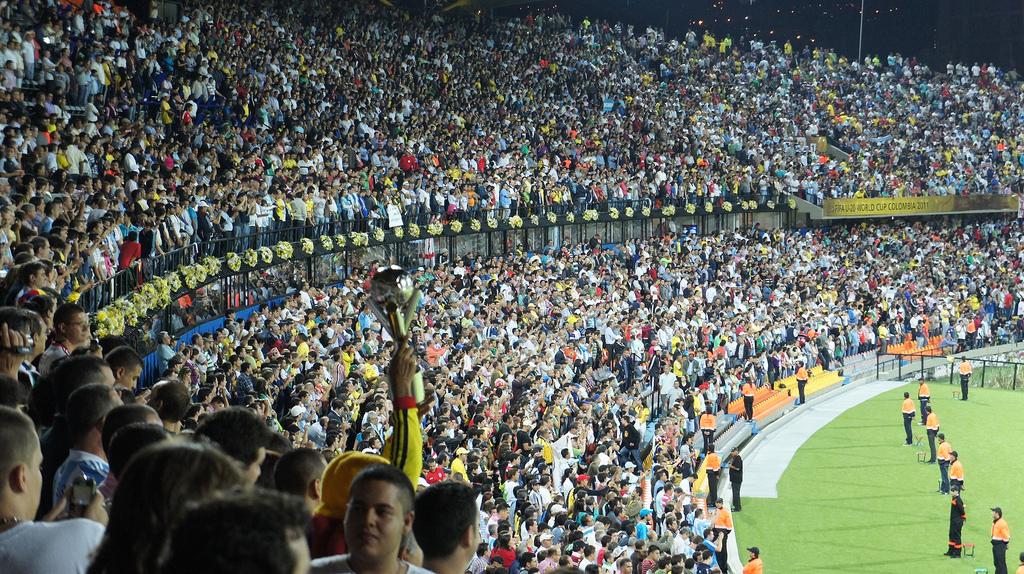 Picture of the match between Argentine vs England in the Colombia 2011 FIFA U-20 world cup.